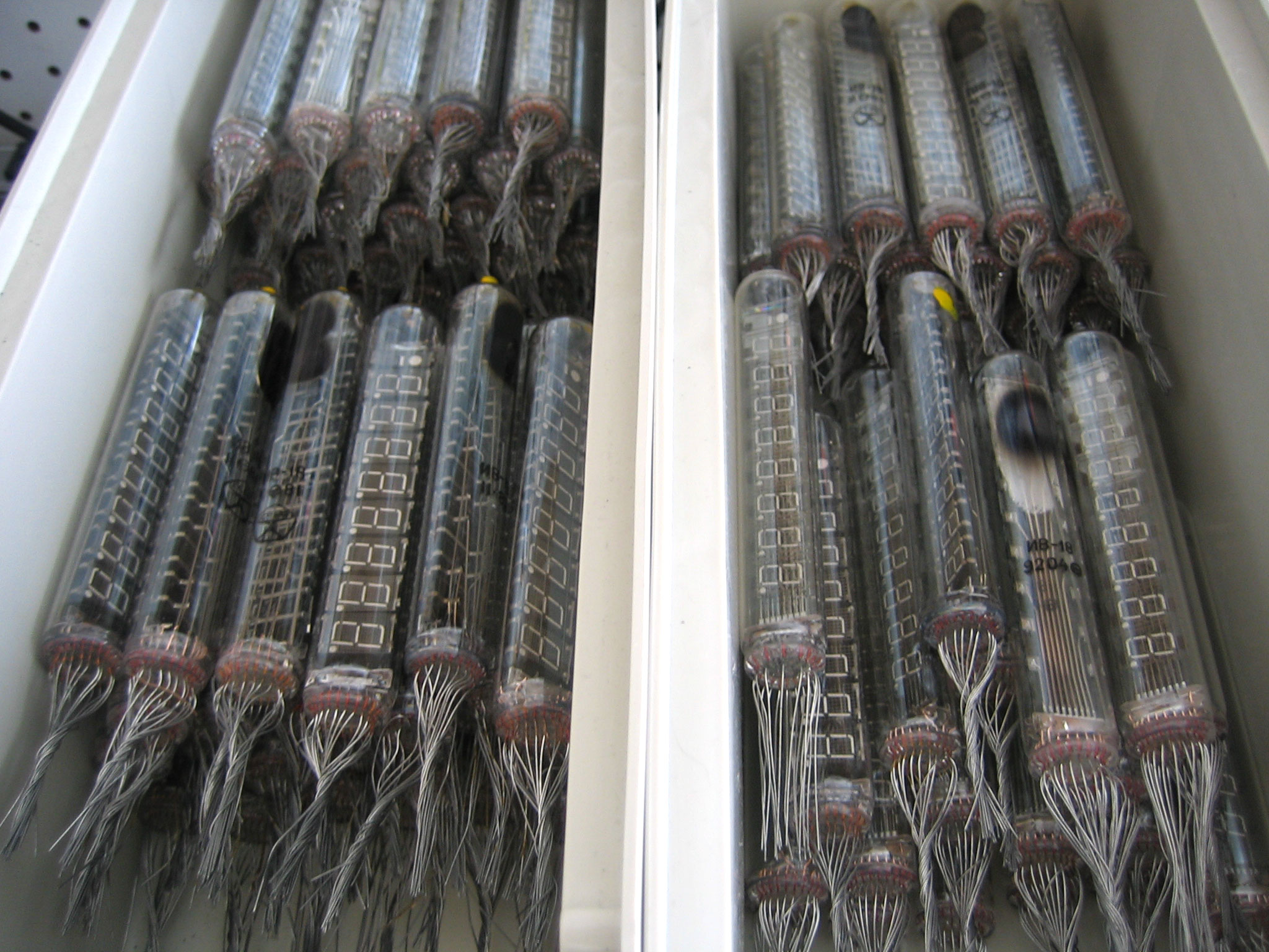 all the good tubes!